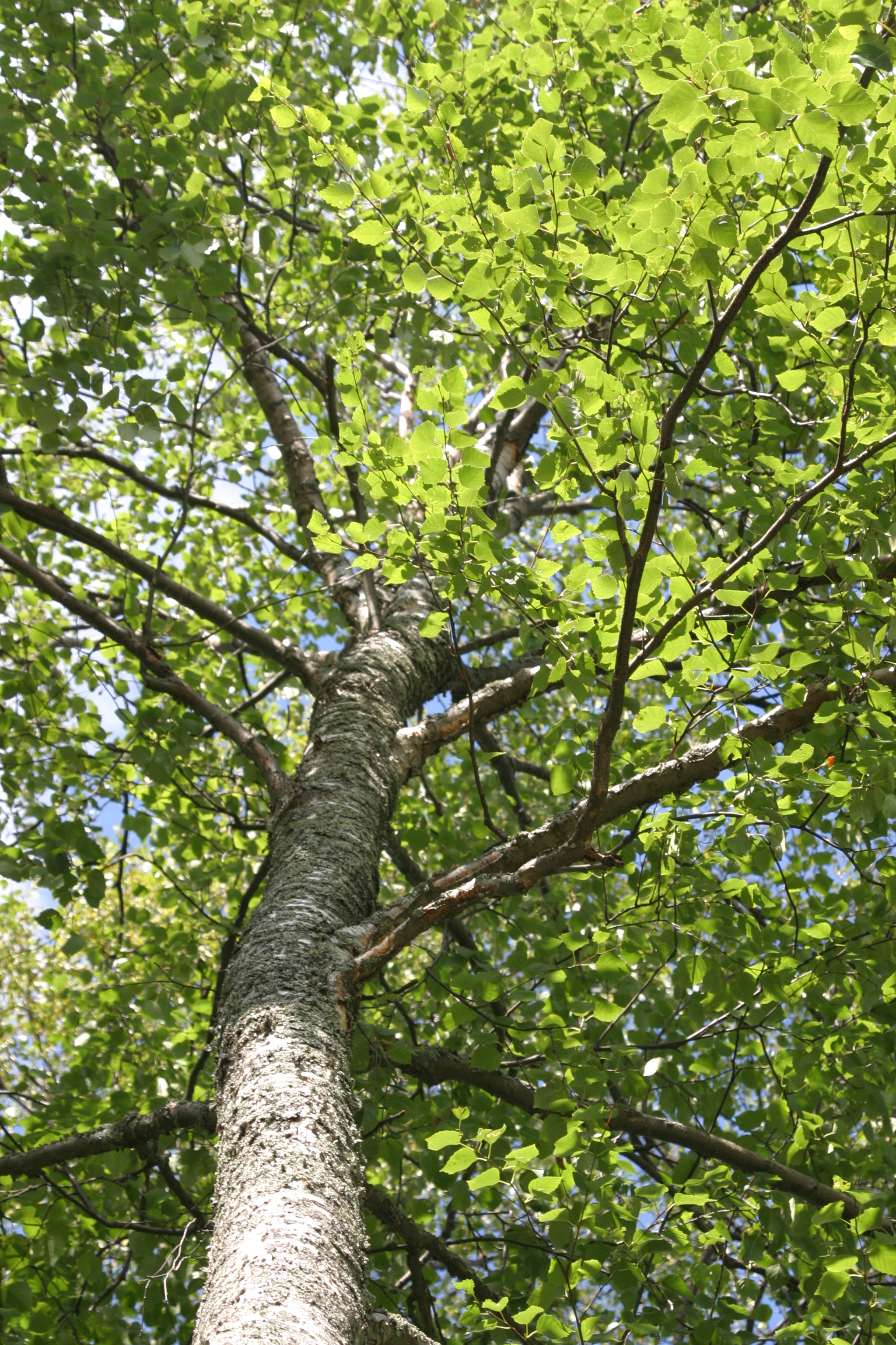 Betula pubescens form down to up